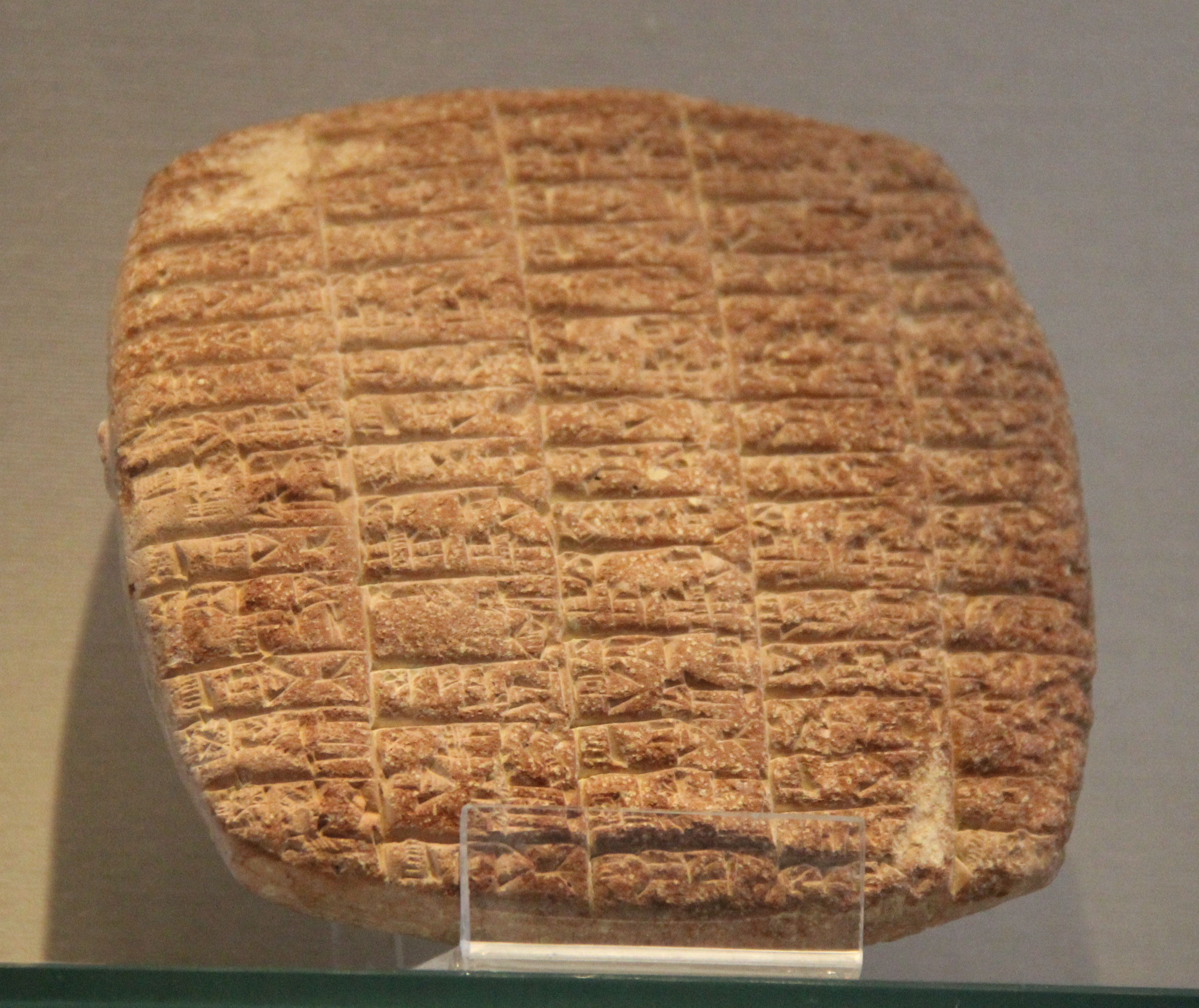 Lamentation about the ruin of Lagash, Uru-Ka-gina period, circa 2350 BCE Tello, ancient Girsu Ancient Near East Gallery, Louvre Museum, Paris, France. Complete indexed photo collection at .